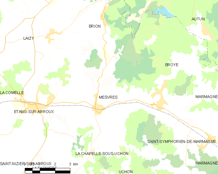 Map of French municipality